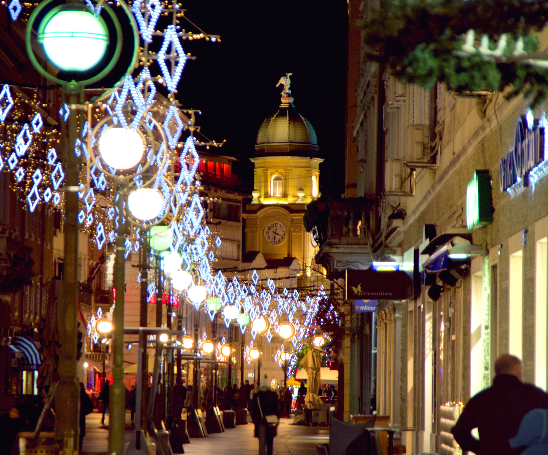 Main street Korzo in Advent time